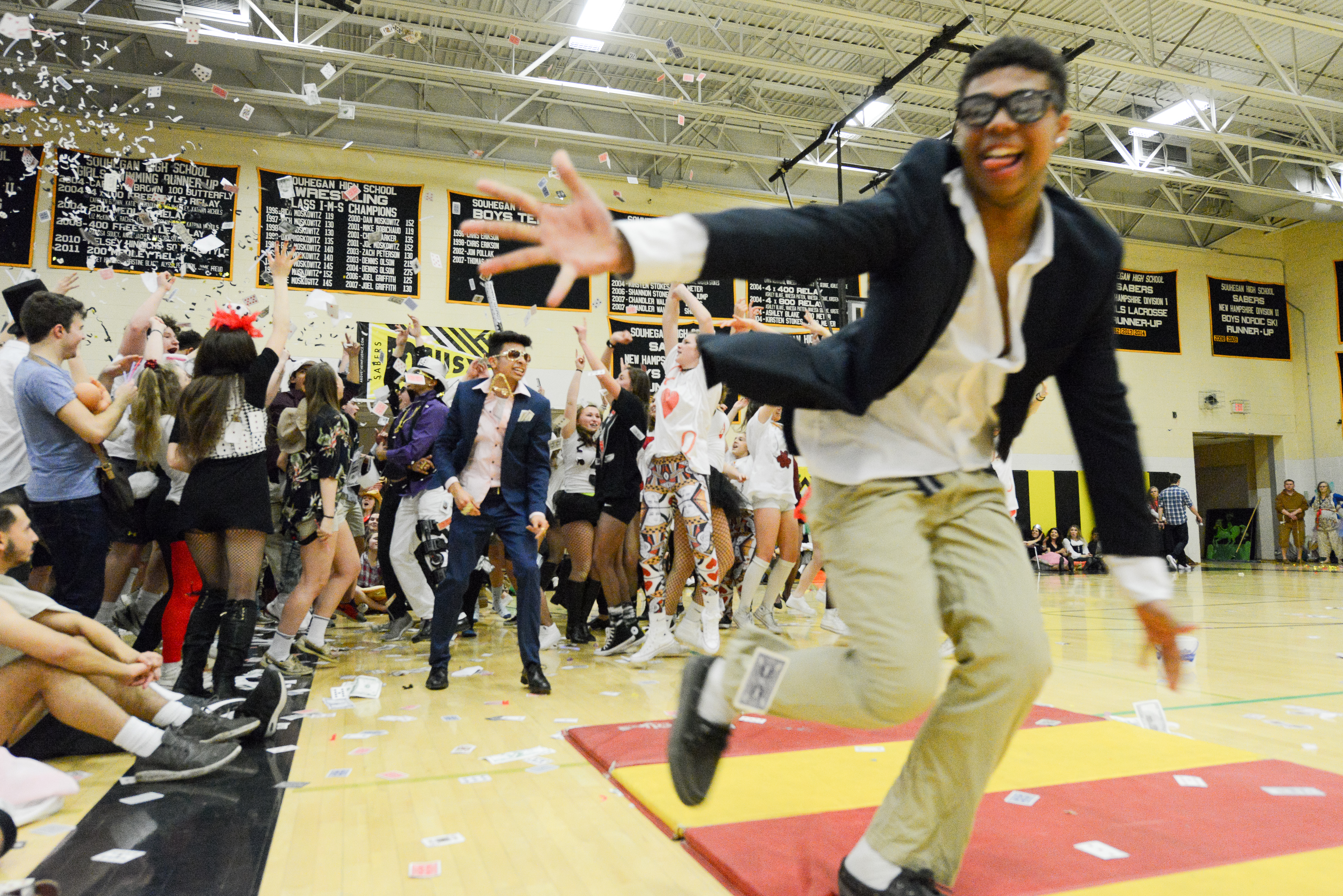 Fang Fest